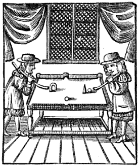 An early form of billiards is depicted.